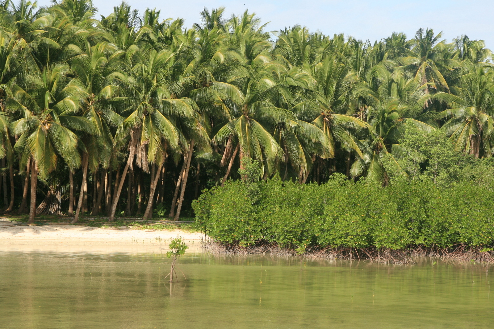 Bantayan coastline - coconut palms and mangroves